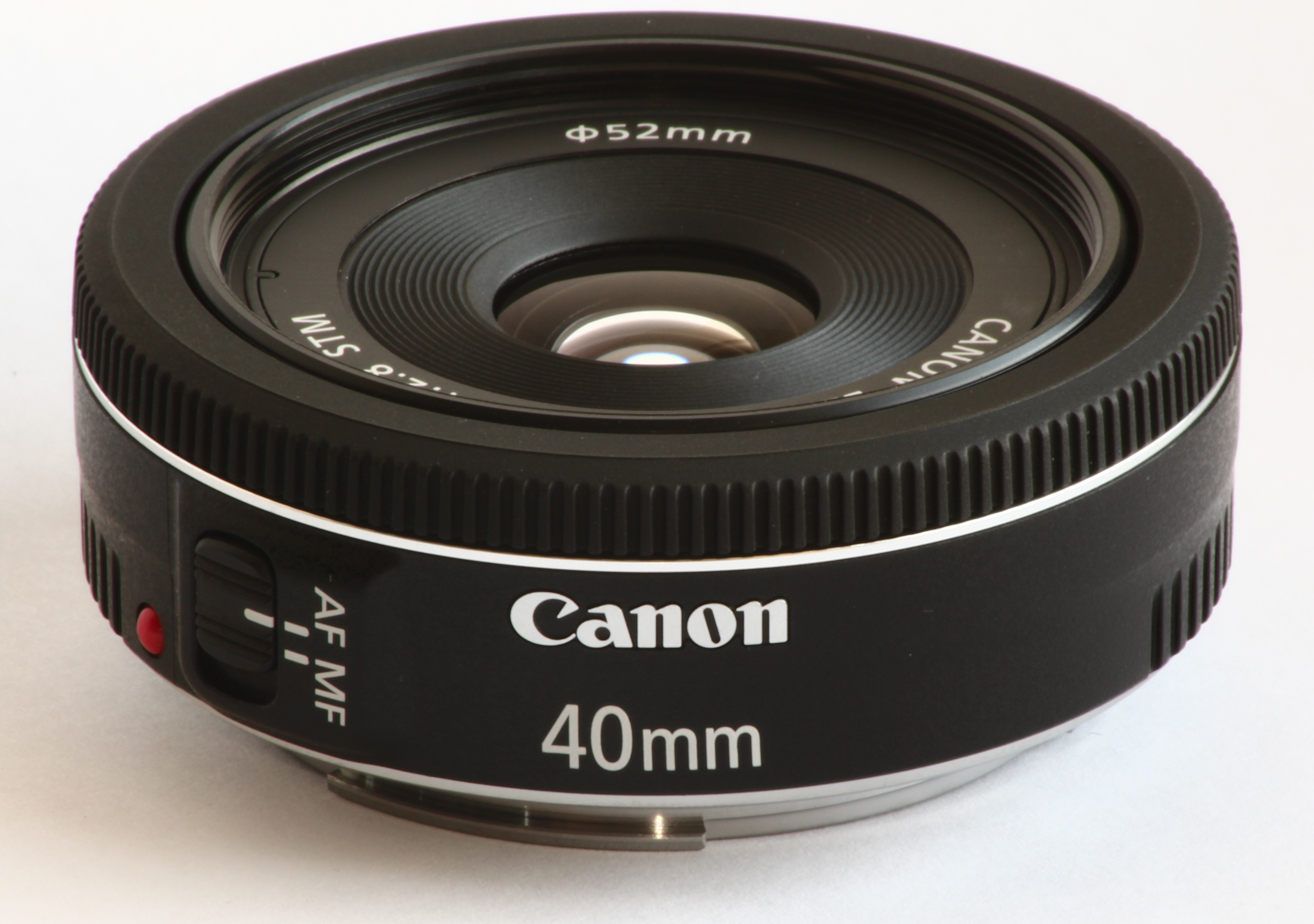 Canon EF 40mm f/2.8 STM pancake lens